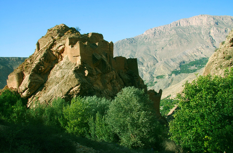 Malek Bahman Castle Malak Bahman Castle